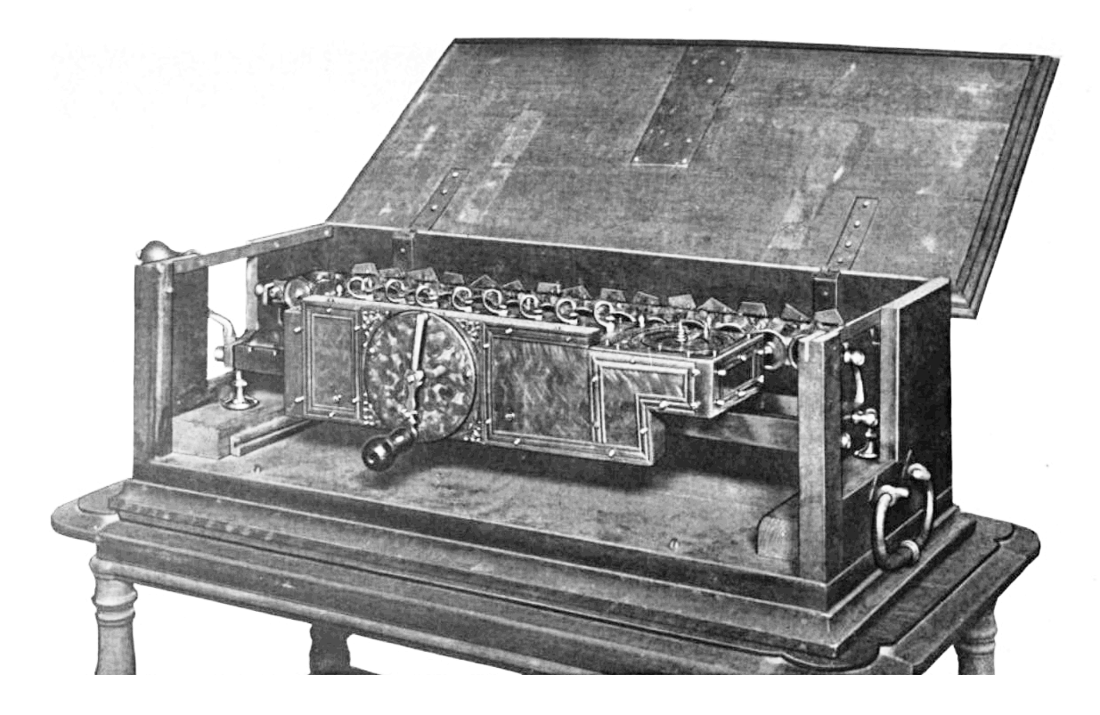 'Stepped Reckoner'), a prototype mechanical calculator invented by German mathematician Gottfried Wilhelm Leibniz in 1674 and completed in 1694. About 67 cm (26 in.) long. This was the first calculator able to do all four arithmetic operations: addition, subtraction, multiplication, and division. Only two Stepped Reckoners were built. This one was found by workmen in 1879 in the attic of a building at the University of Gottingen, and is now in the National Library of Lower Saxony (Niedersächsische Landesbibliothek), Hannover, Germany. For more information see James Redin (2007) A Brief History of Calculators Part 1: The Age of the Polymaths. Caption: "Leibnitz calculator, made in 1694. The first two-motion machine designed to compute multiplication by repeated addition". Alterations: cropped out frame and caption, increased brightness.